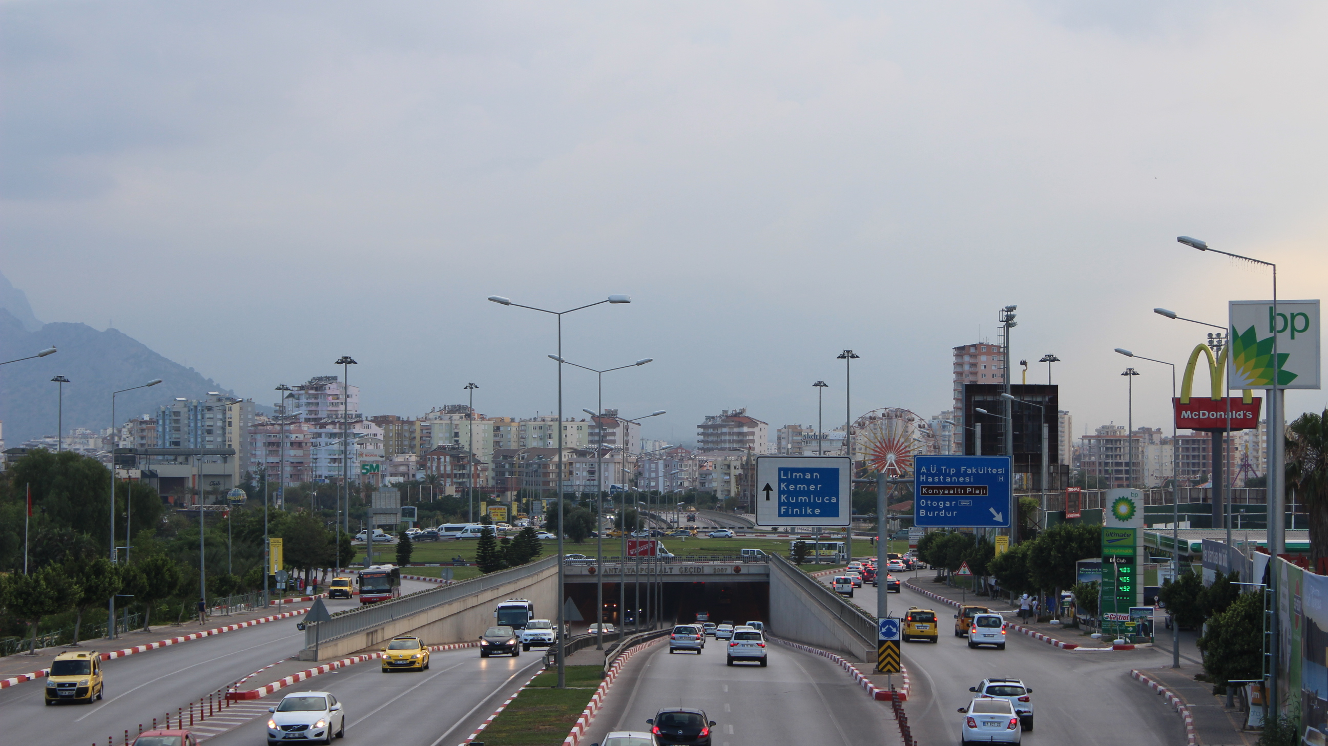 Antalyaspor Interchange, formerly known as Adliye Roundabout due to its closeness to former Justice Palace building of Antalya. The underpass serve the transit traffic of city center to Konyaaltı, while the upper part Dumlupınar Bulvarı is maintaned by General Directorate of Highways as D-400 Highway.